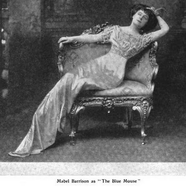 Mabel Barrison, from a 1909 publication.